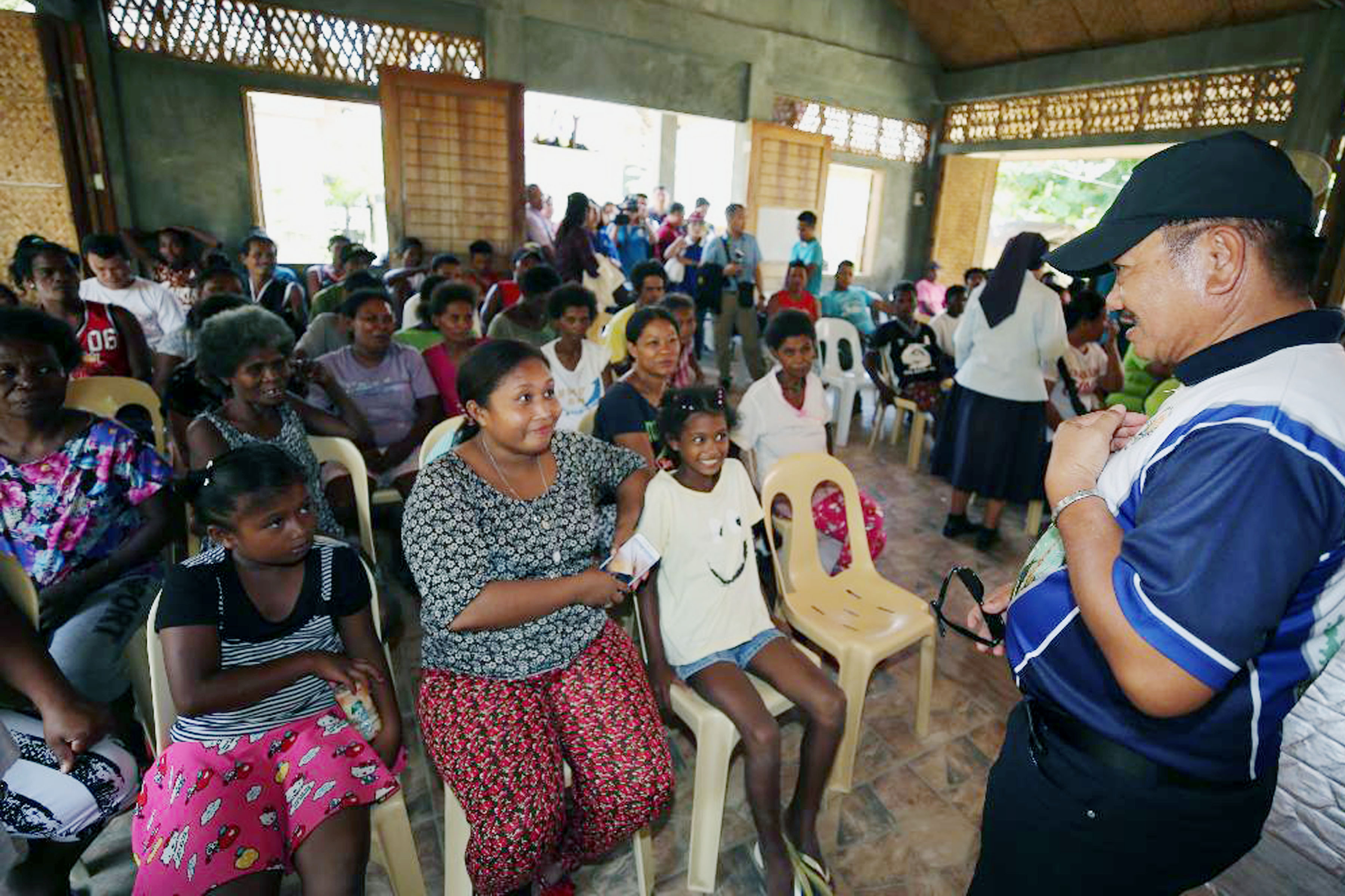 Department of Agriculture Secretary Emmanuel Piñol urged the Ati Tribe members of Brgy. Manoc-manoc in Malay, Aklan to turn their 2.1 hectare-ancestral domain into an agri- tourism site to uplift their lives from poverty and provide them access to government interventions' on Wednesday (June 27, 2018) during a meeting with the agri chief who initially committed Php 2 million financial support to the Indigenous People's (IPs) and women's groups of Boracay via the Survival Recovery (SURE) loaning program